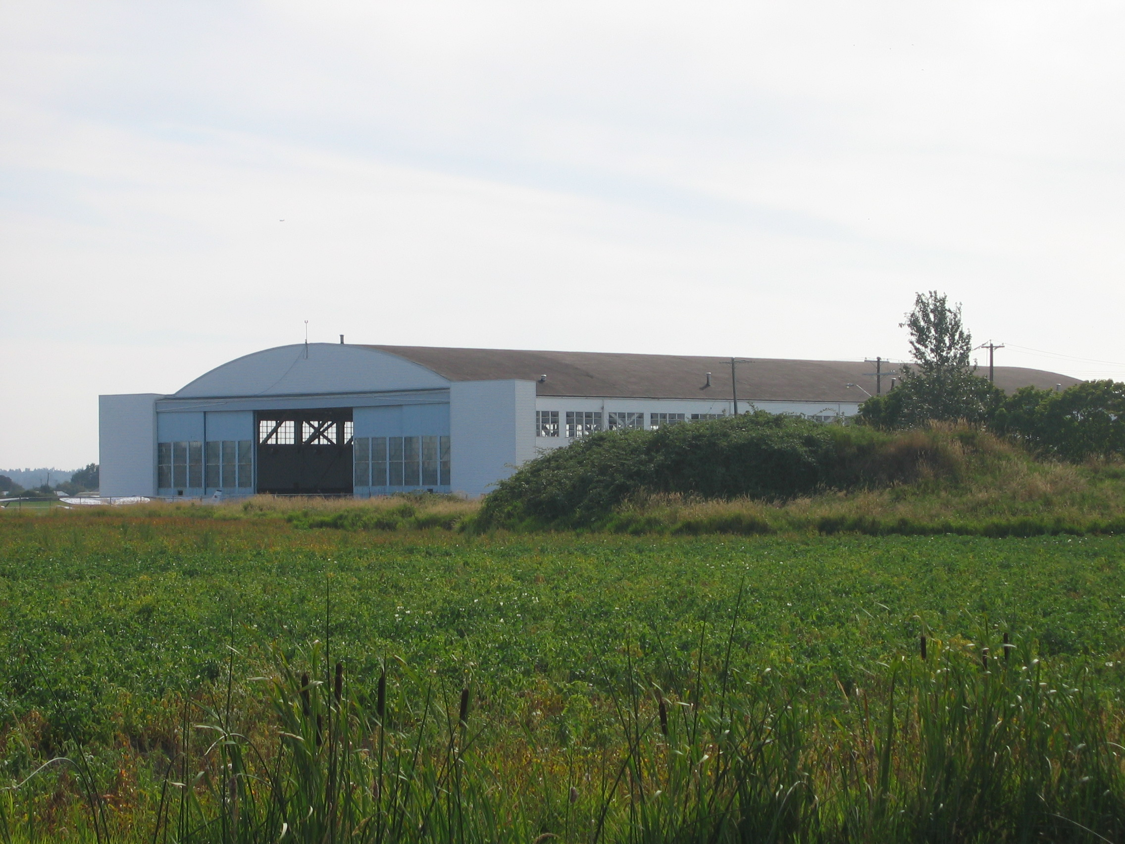 The main hangar at Boundary Bay Airport. Picture taken by me at on August 22, en:2005. -Lommer